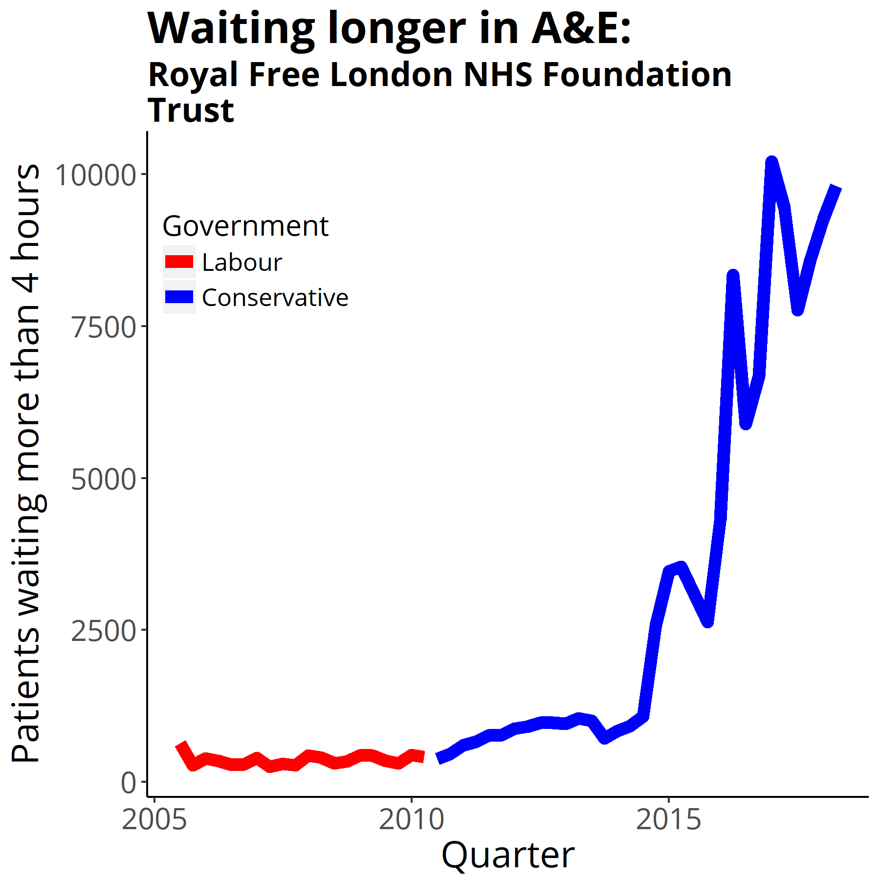 Four-hour target in the emergency department quarterly figures from NHS England Data from